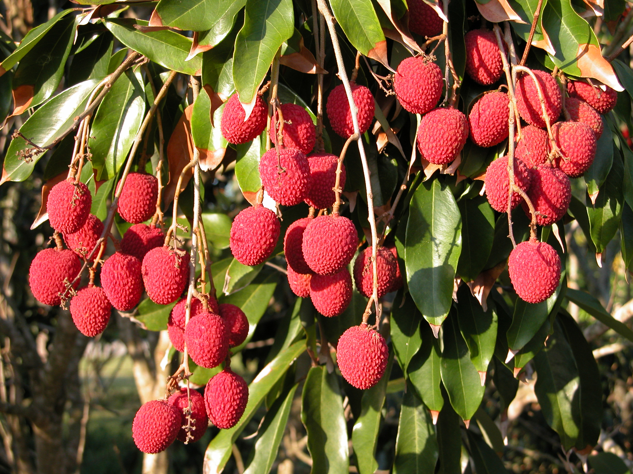 Brewster Lychee (Litchi chinensis / Sapindaceae) growing in a tree in Merritt Island, Florida.